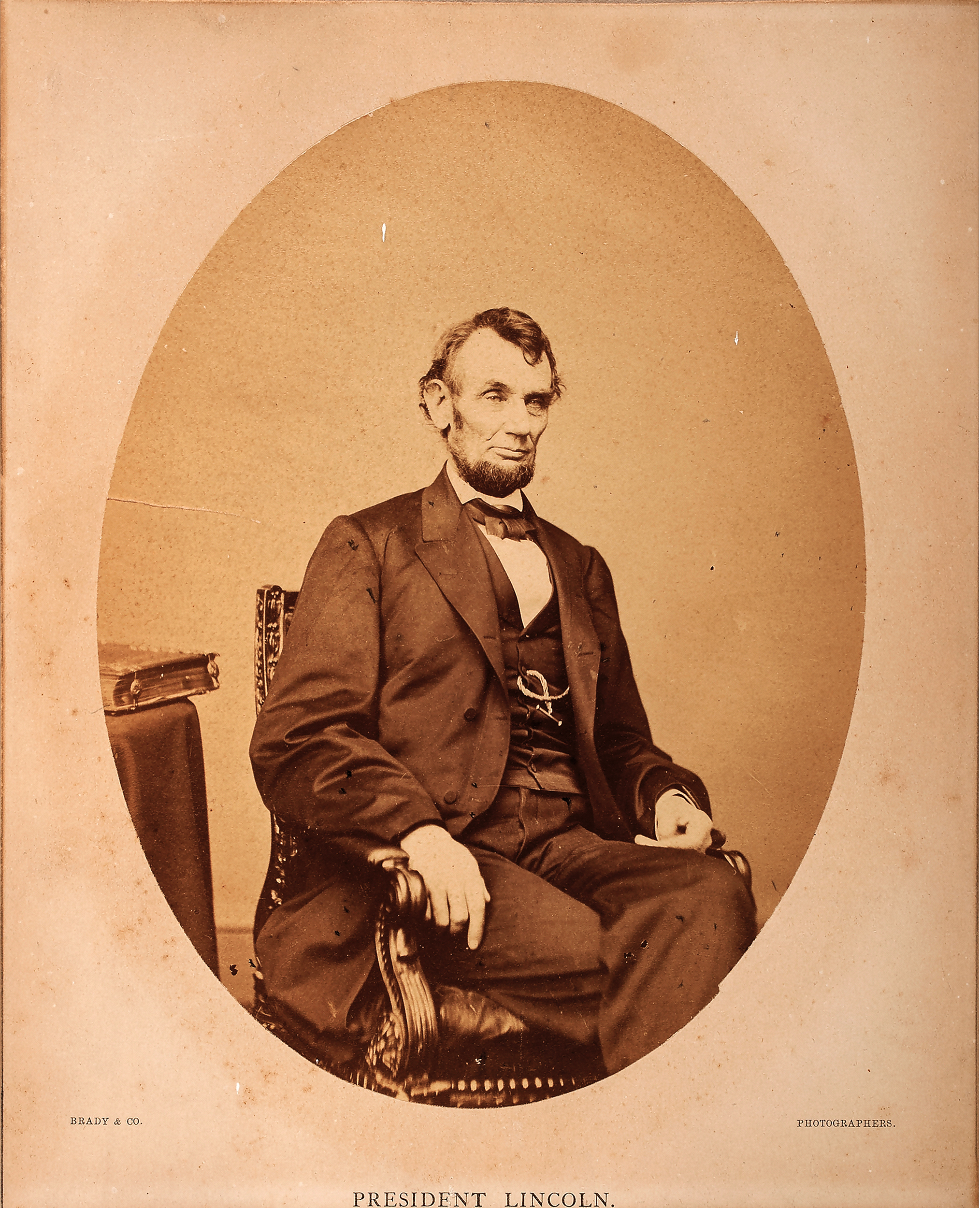 A portrait of Abraham Lincoln, by Mathew Brady